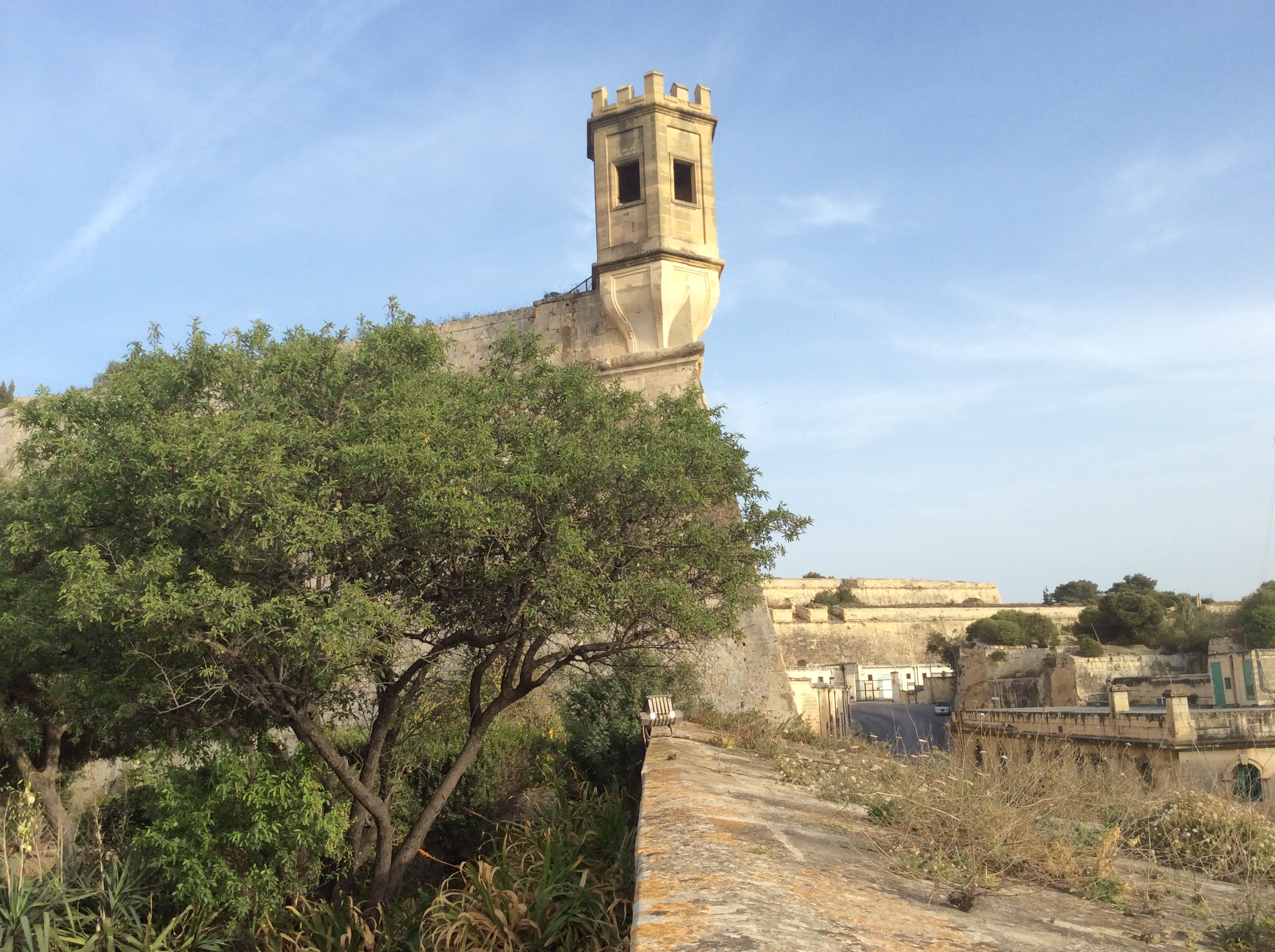 Floriana Lines Gardjola